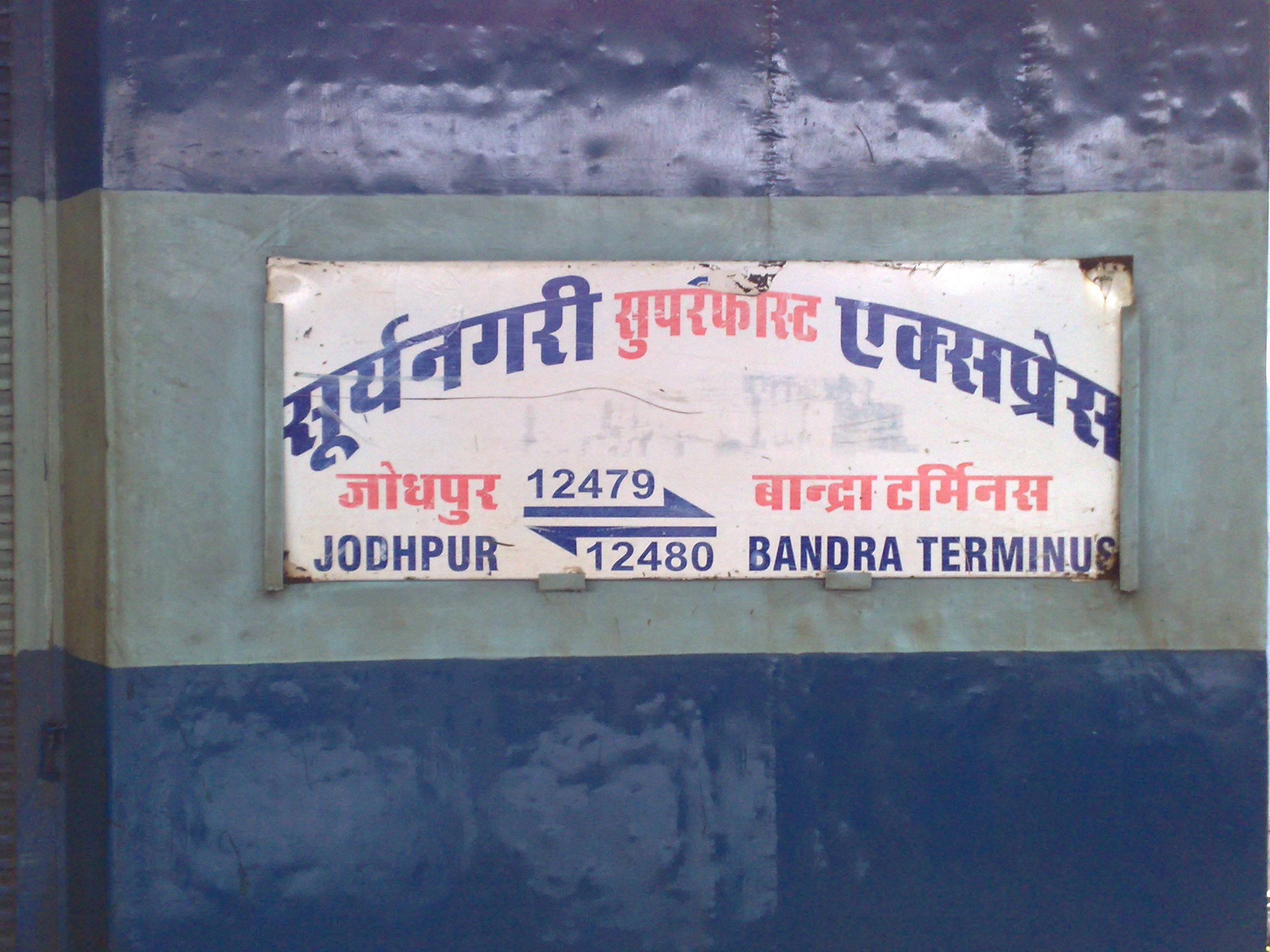 12479 Suryanagri Express